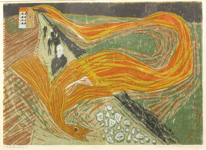 Photo of the woodprint "Lang ånd" made by the Norwegian artist Carl Frithjof Tidemand-Johannessen in 1946.Carl Frithjof Tidemand-Johannessen died in 1958, and according to Norwegian law (Åndsverksloven) this artwork will usually be protected until 70 years after the death year of the creator.